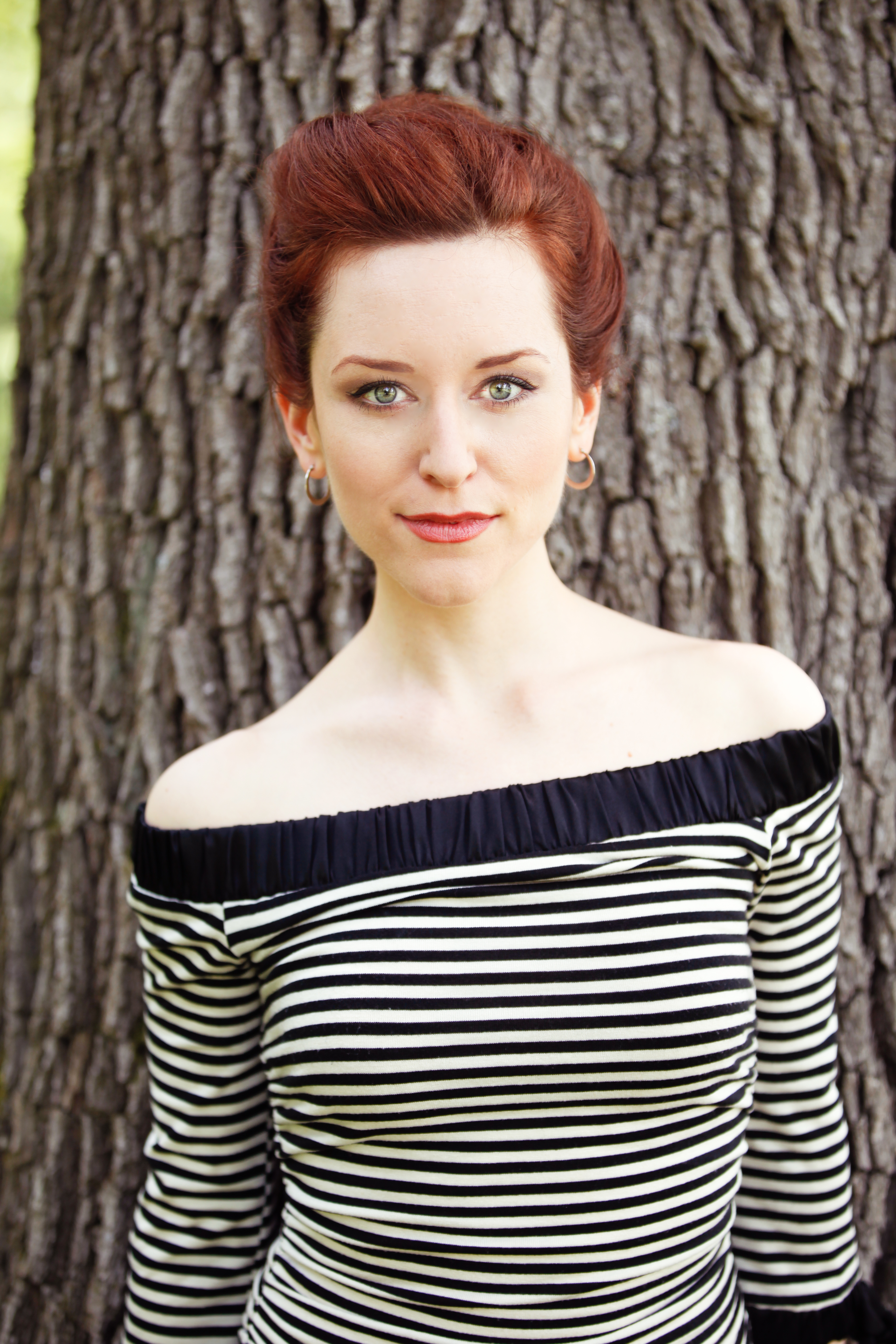 Amy Walker